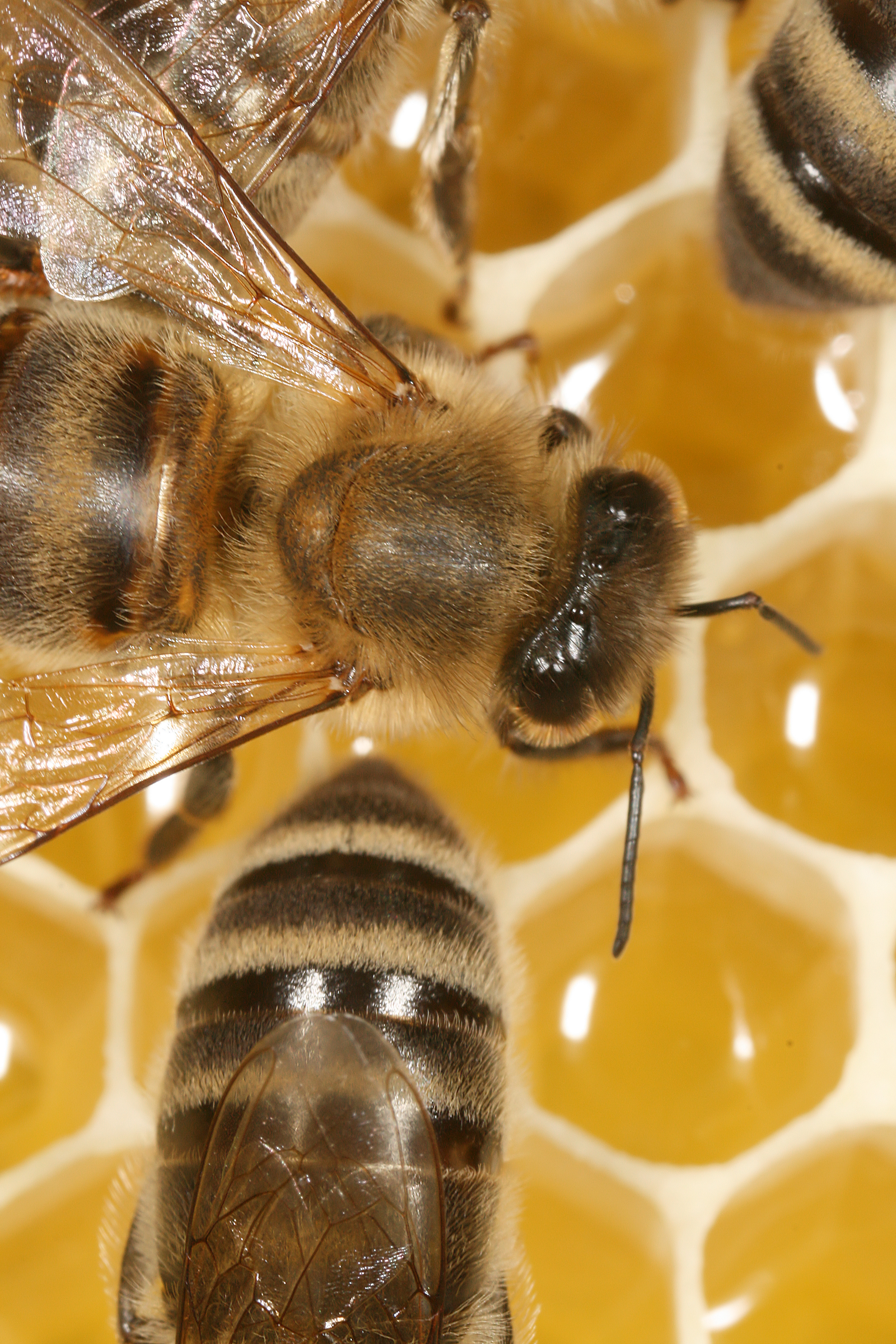 Description: The Carniolan honey bee (Apis mellifera carnica) is a subspecies of Western honey bee. It originates from Slovenia, but can now be found also in Austria, part of Hungary, Romania, Croatia, Bosnia and Herzegovina, and Serbia.